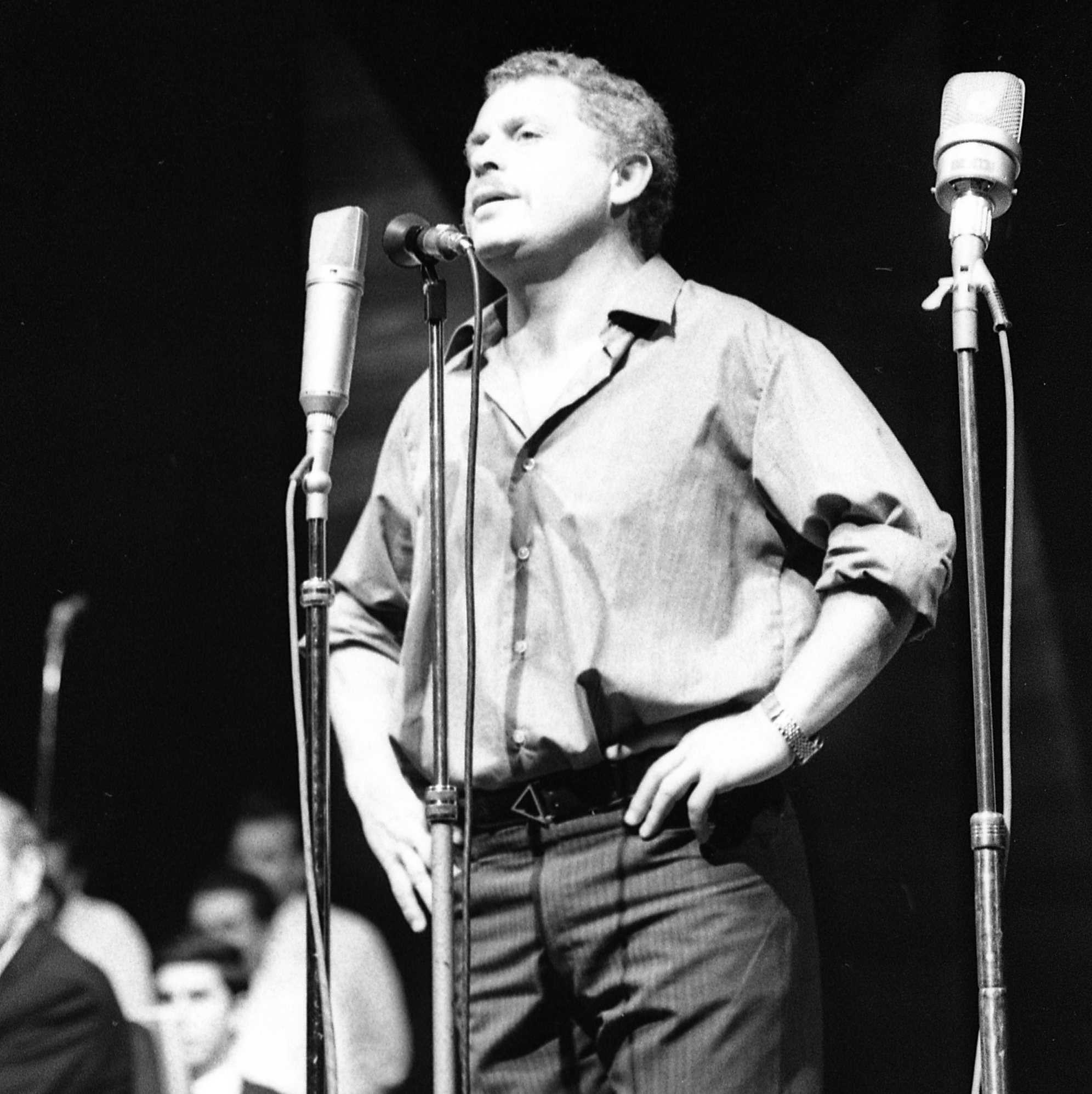 The First Hasidic Festival.